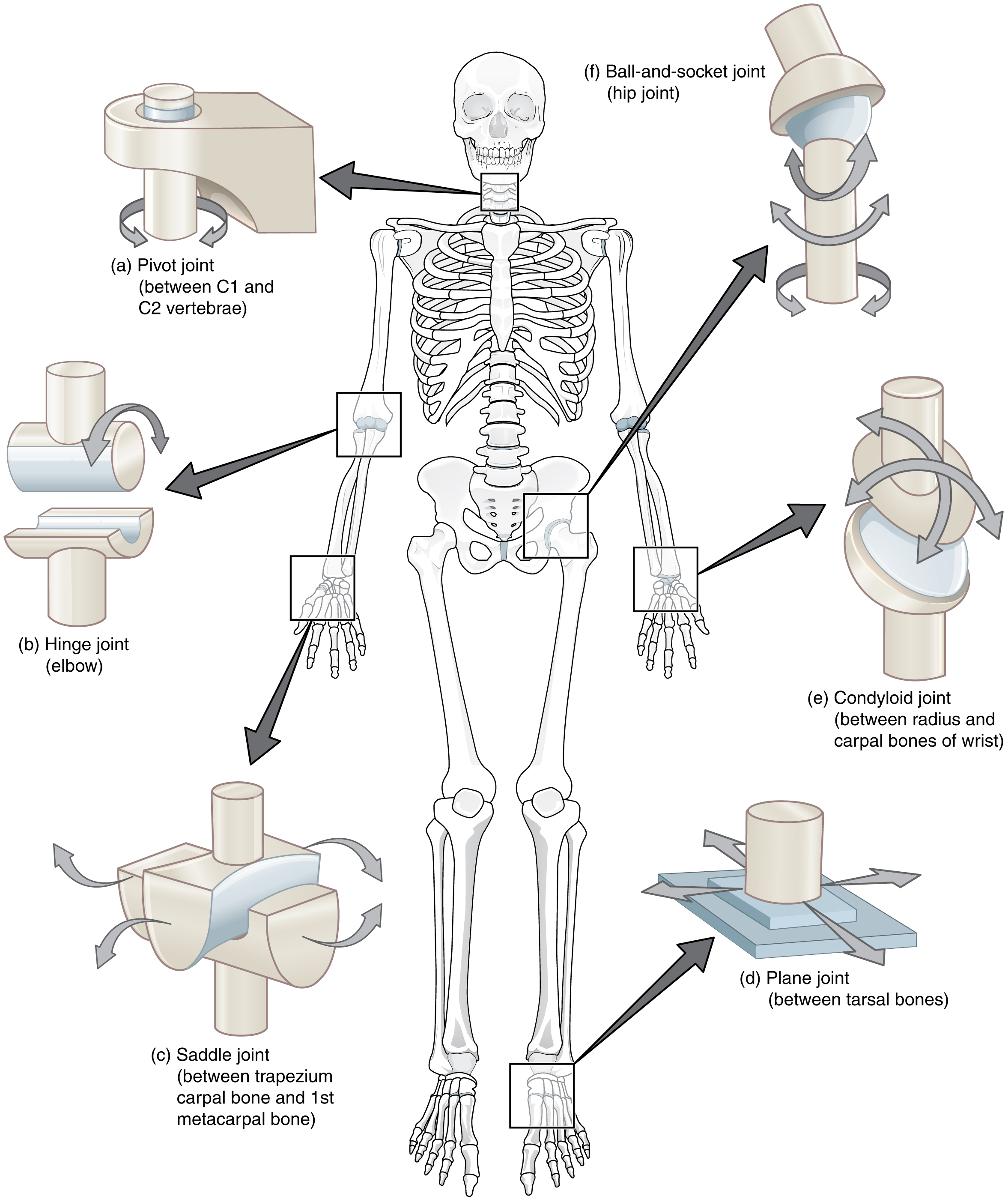 Illustration from Anatomy & Physiology, Connexions Web site. Jun 19, 2013.